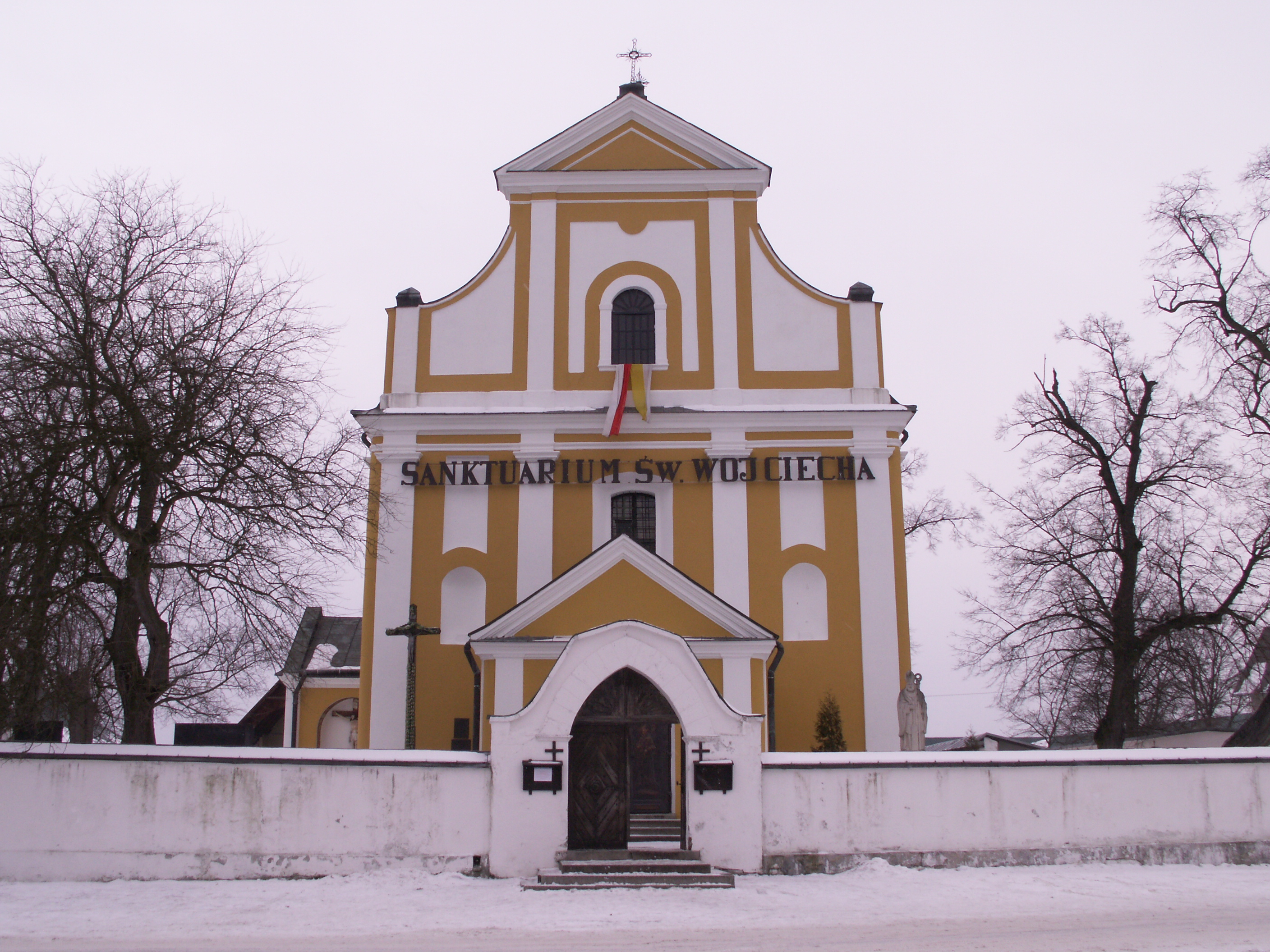 Adalbert of Prague church in Bieliny